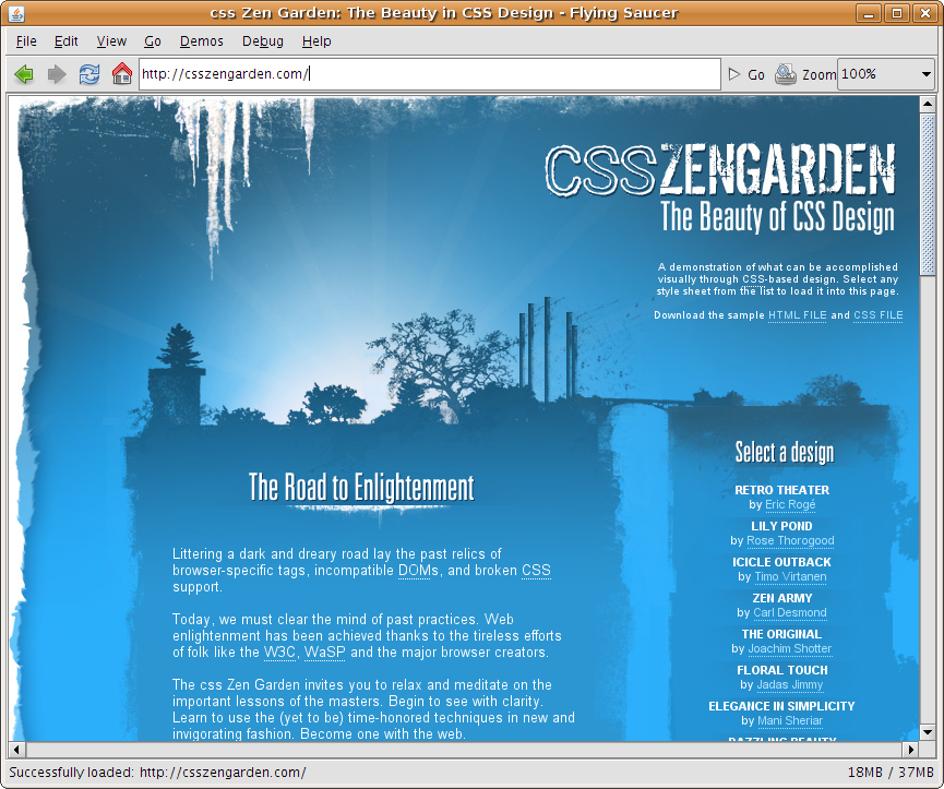 CSS Zen garden website rendered with flying saucer